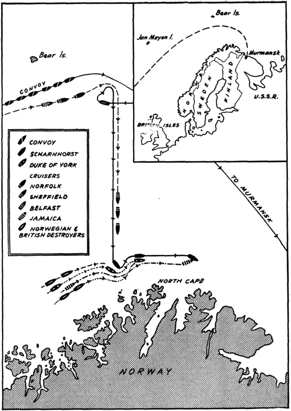 Contemporary map of the Battle of North Cape on 26 December 1943.